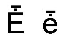 Samogitian "long e".Žemaitėška: ė ėlguojė